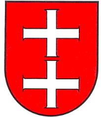 Coat of arms of Gossersweiler-Stein